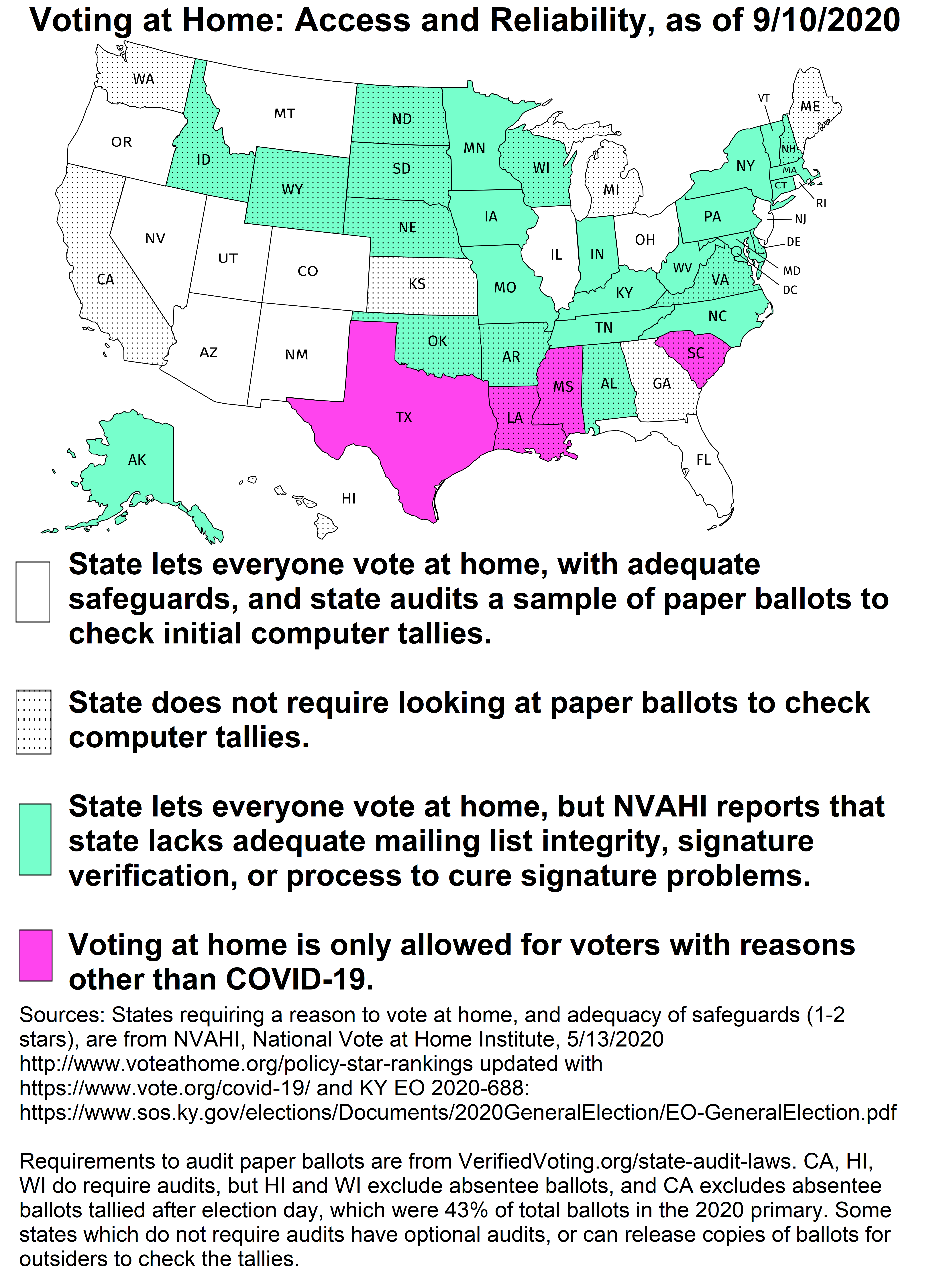 labels and original map from 2020 map from